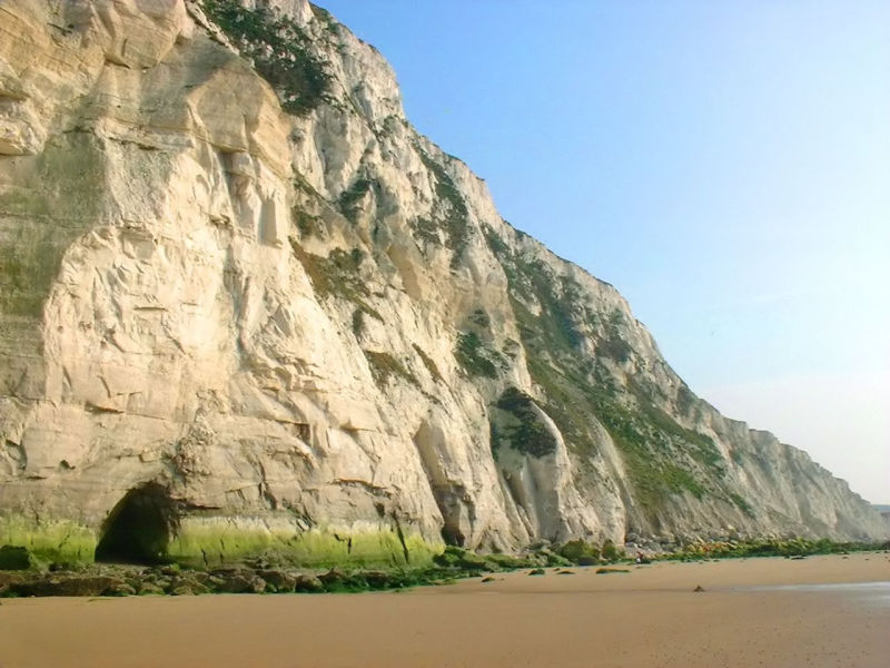 Cap Blanc-Nez near Calais - cliff